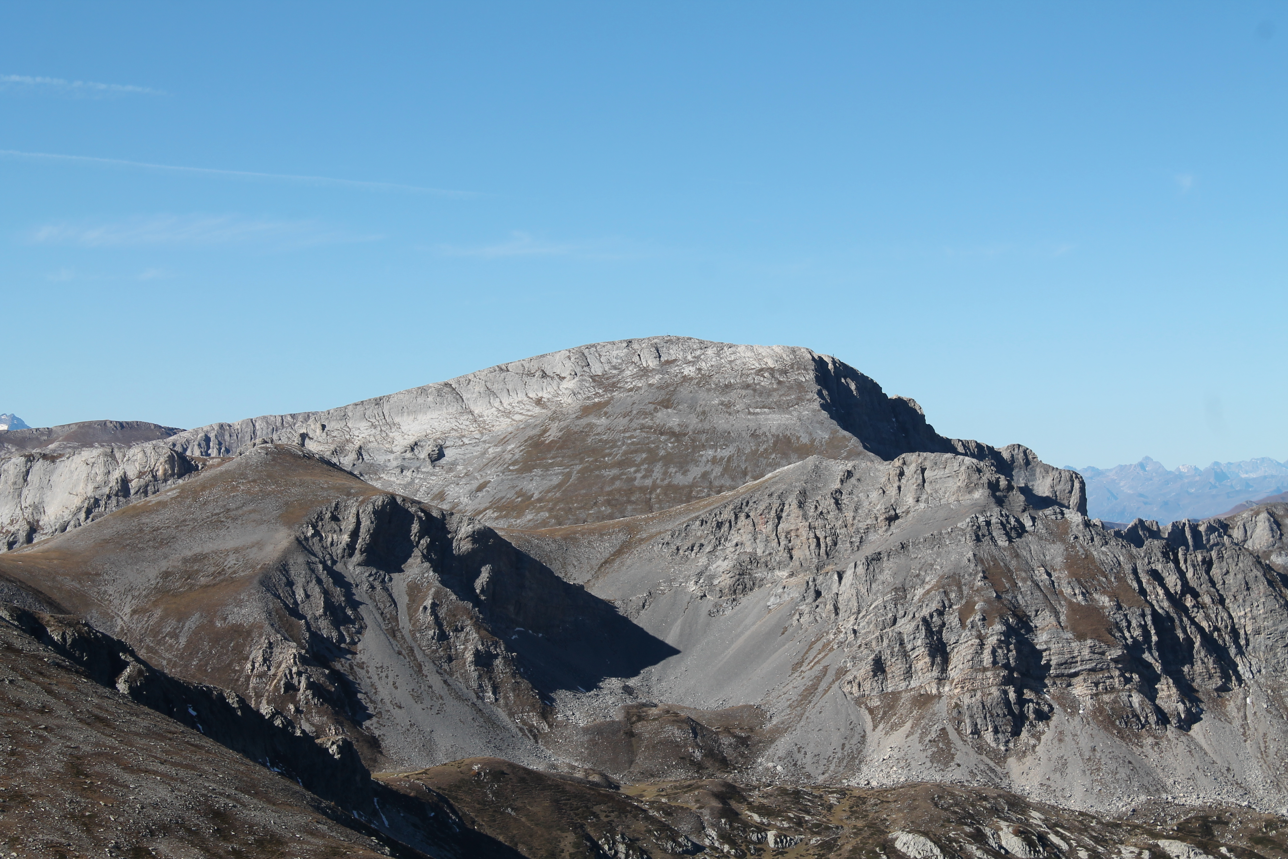 Monte Mongioie (Italy), taken from Pizzo d'Ormea